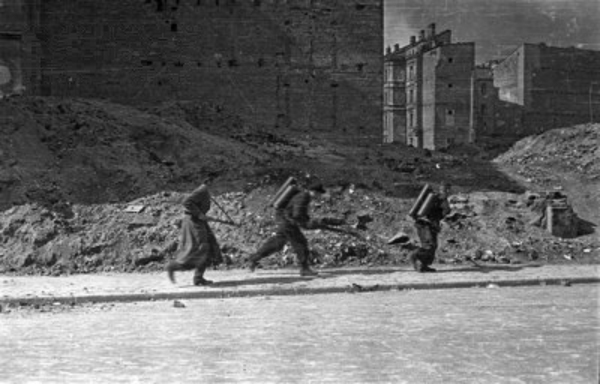 Warsaw Uprising: Insurgents with flame throwers, likely in the neighborhood of Sienna street.